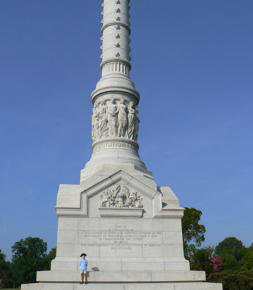 Monument at Yorktown VA, celebrating victory in the American Revolutionary War. Installed 1884. Sculptor: John Quincy Adams Ward